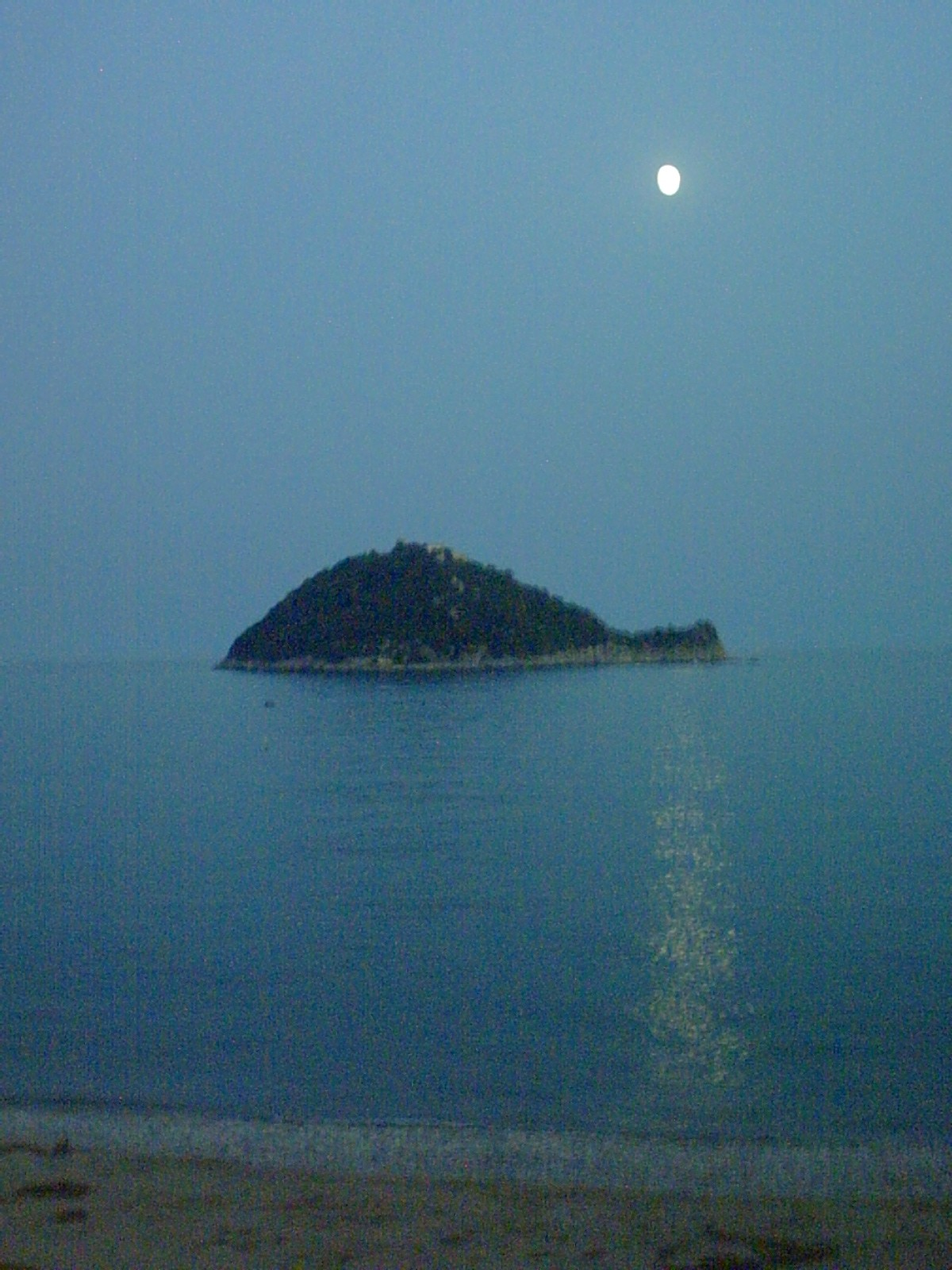 Isle Gallinara (Albenga) by night This is a photography of Natura 2000 protected area with ID IT1324908